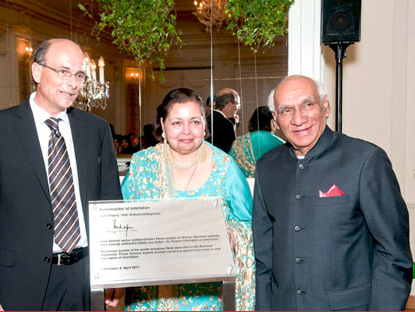 Yash Chopra receives title "Ambassador of Interlaken (2011)", with his wife Pamela Chopra.